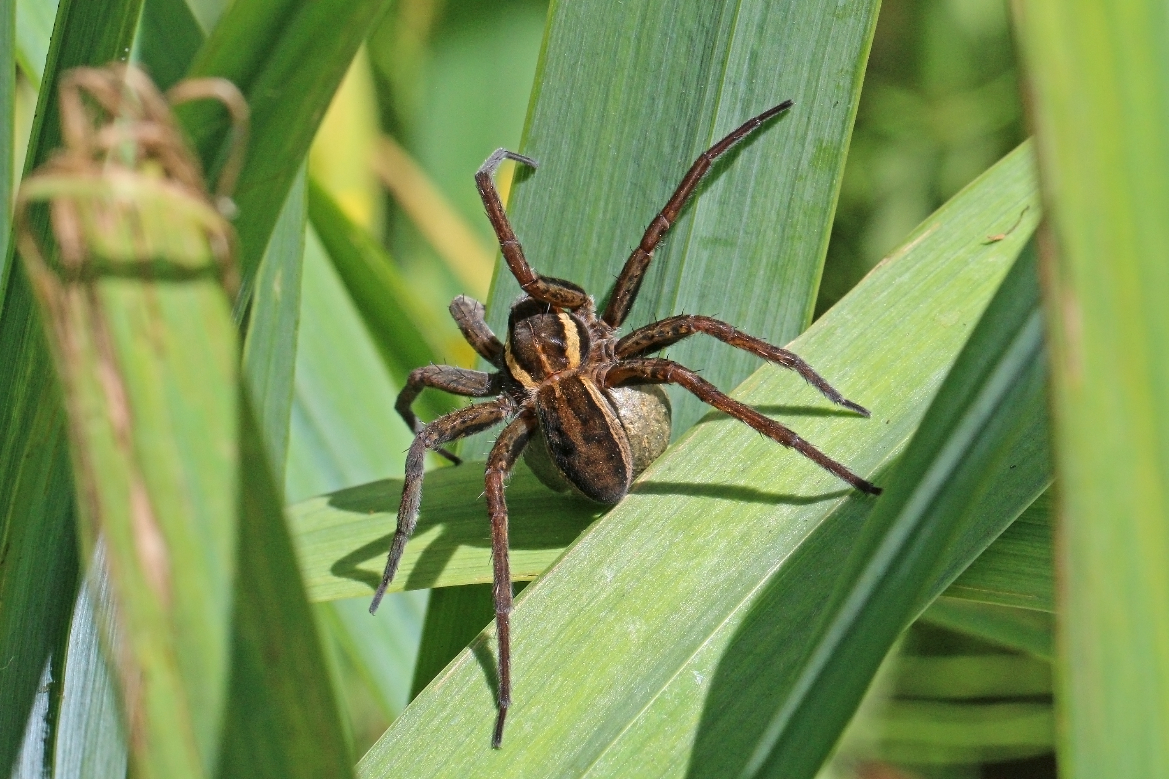 Raft spider (Dolomedes fimbriatus) female with egg sac, Sõrve peninsula, Estonia